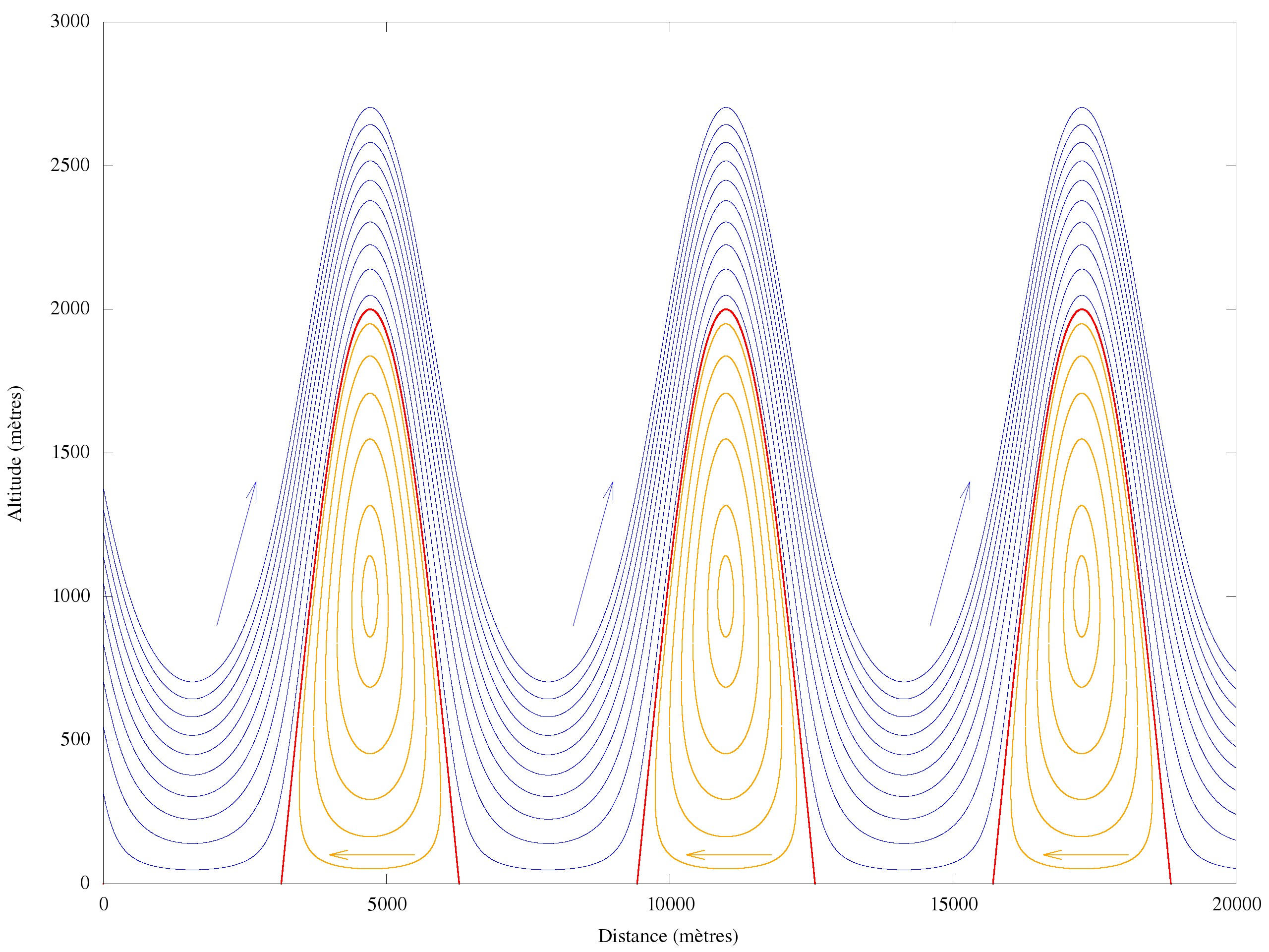 Stream lines in a wave system